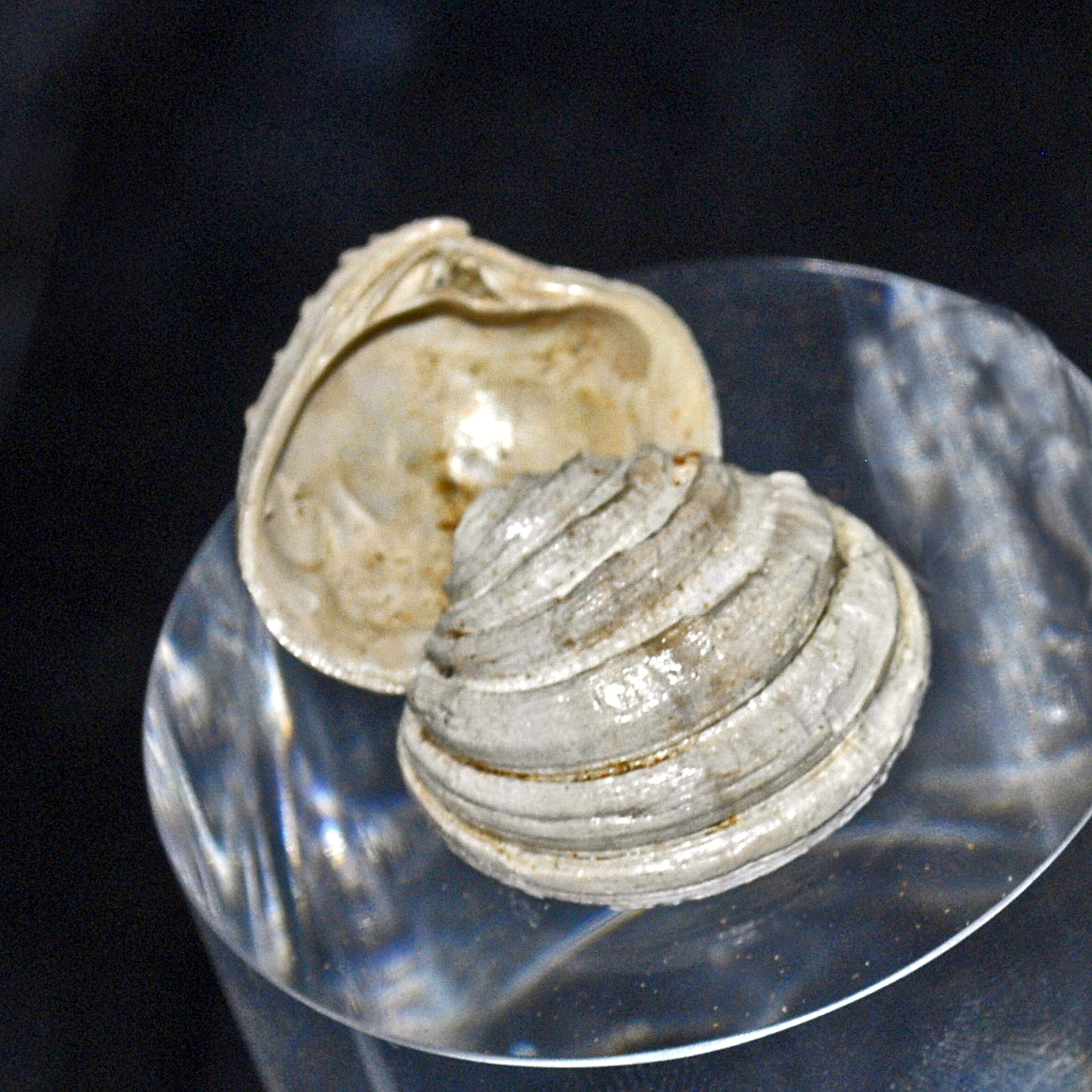 Fossil of Clausinella scalaris, on display at the Museo Civico Craveri di Scienze Naturali - Bra